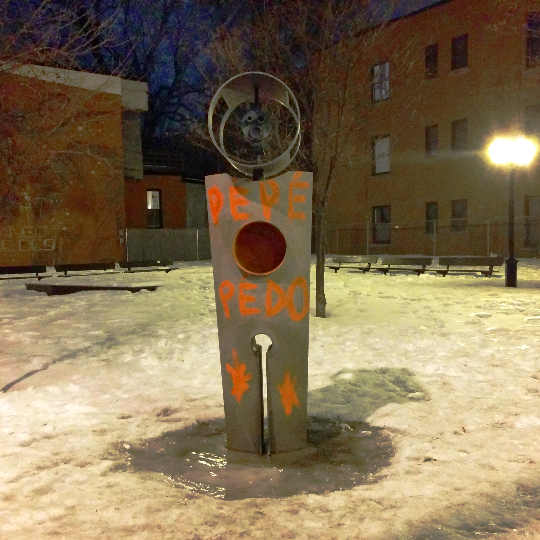 Defaced Charles Daudelin's sculpture "Hommage à Claude Jutra" at Parc Claude-Jutra, Montreal, 23 February 2016. The graffiti "Pépé pédo" translates roughly as "pedo grandpa".